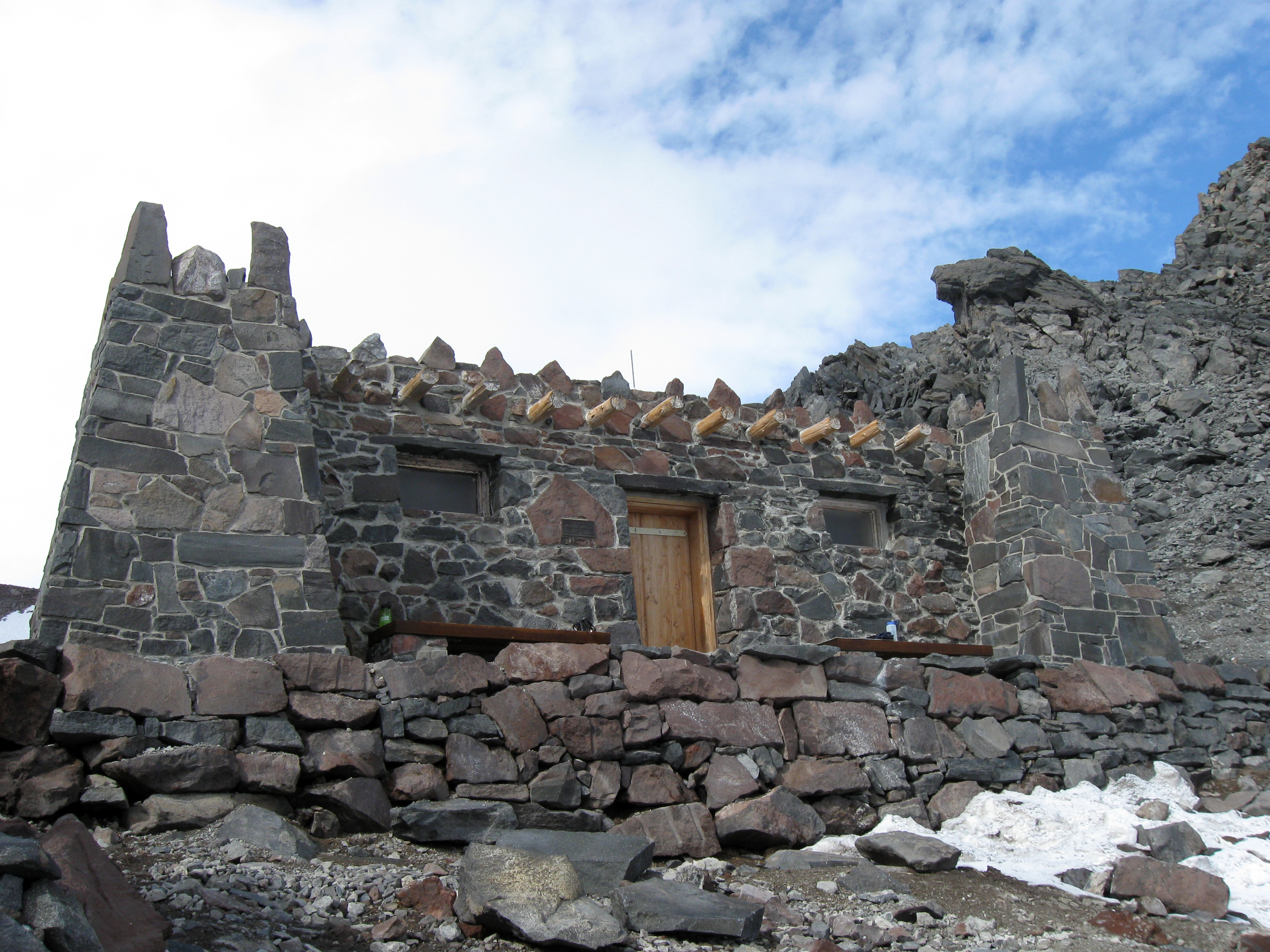 Shelter at Camp Muir on Mount Rainier, elevation approximately 10,000 ft